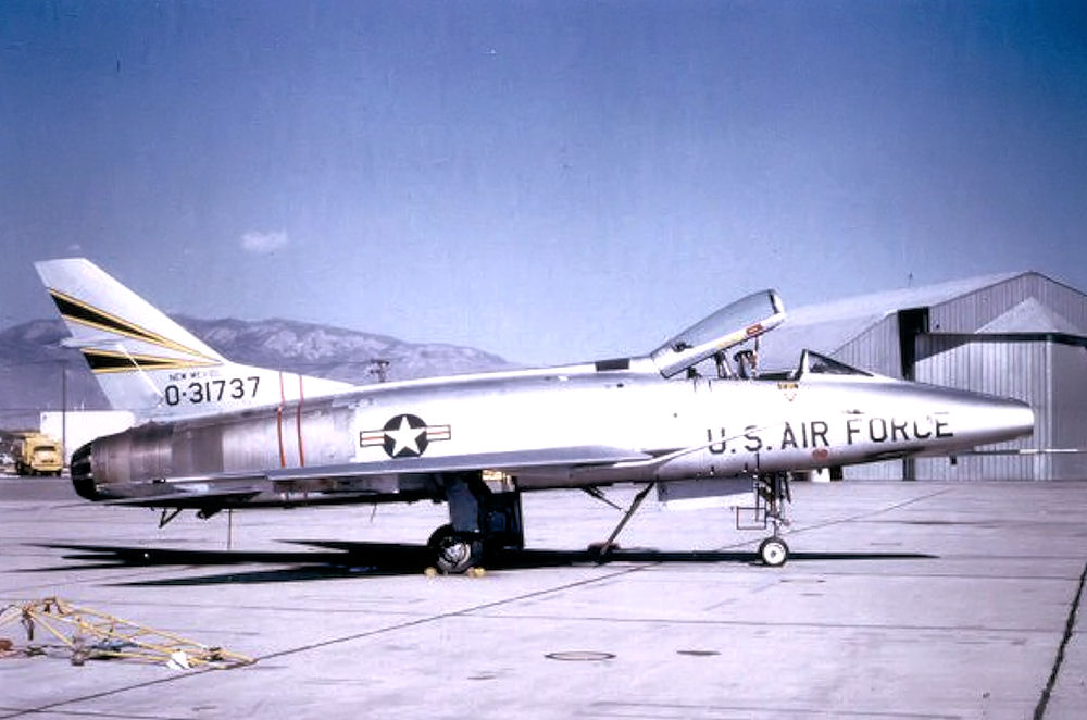 188th Tactical Fighter Squadron - North American F-100C-1-NA Super Sabre 53-1737 Retired to MASDC Jun 26, 1974 as FE0267. as decoy.